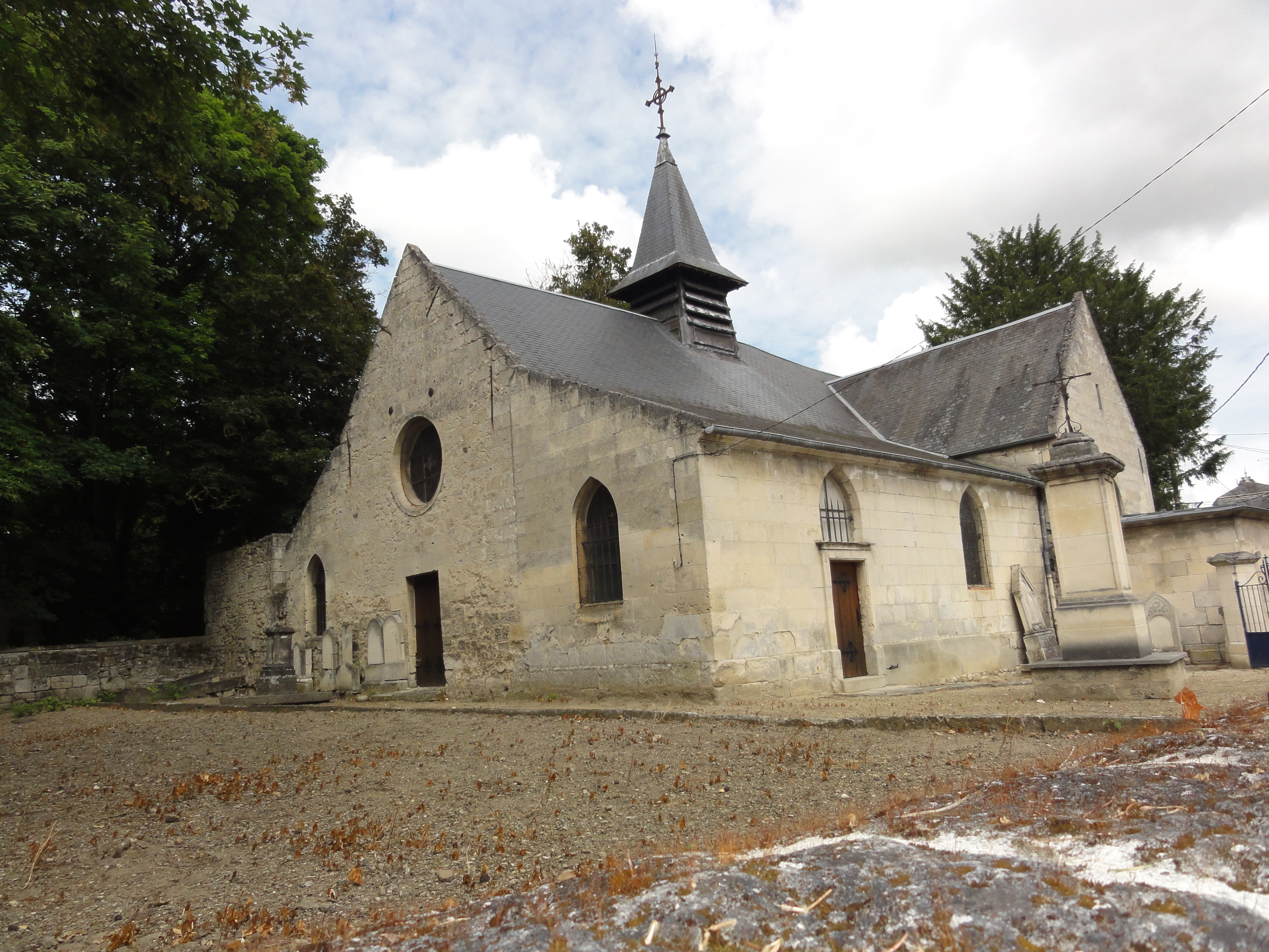 Villeneuve-Saint-Germain (Aisne) église Saint-Germain (à la limite de Soissons)